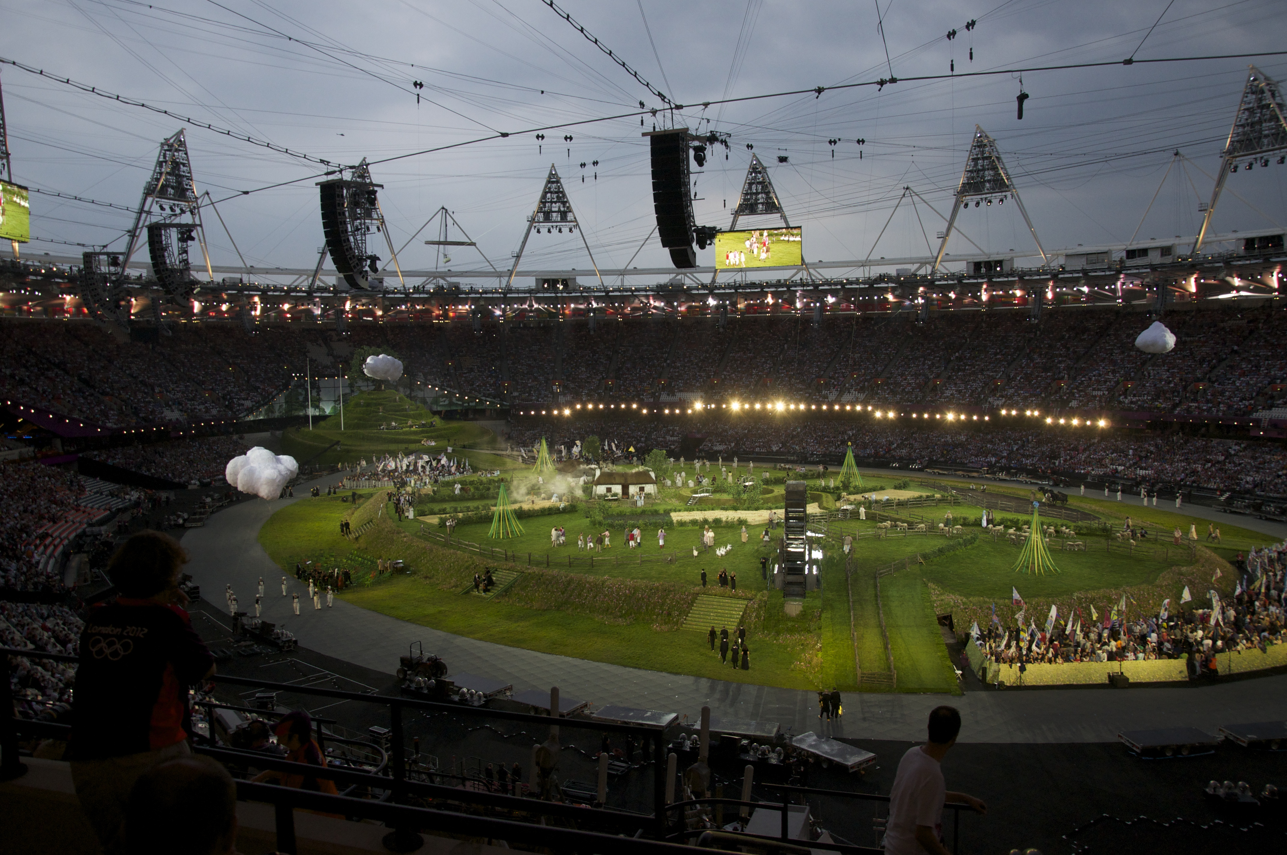 2012 Summer Olympics opening ceremony